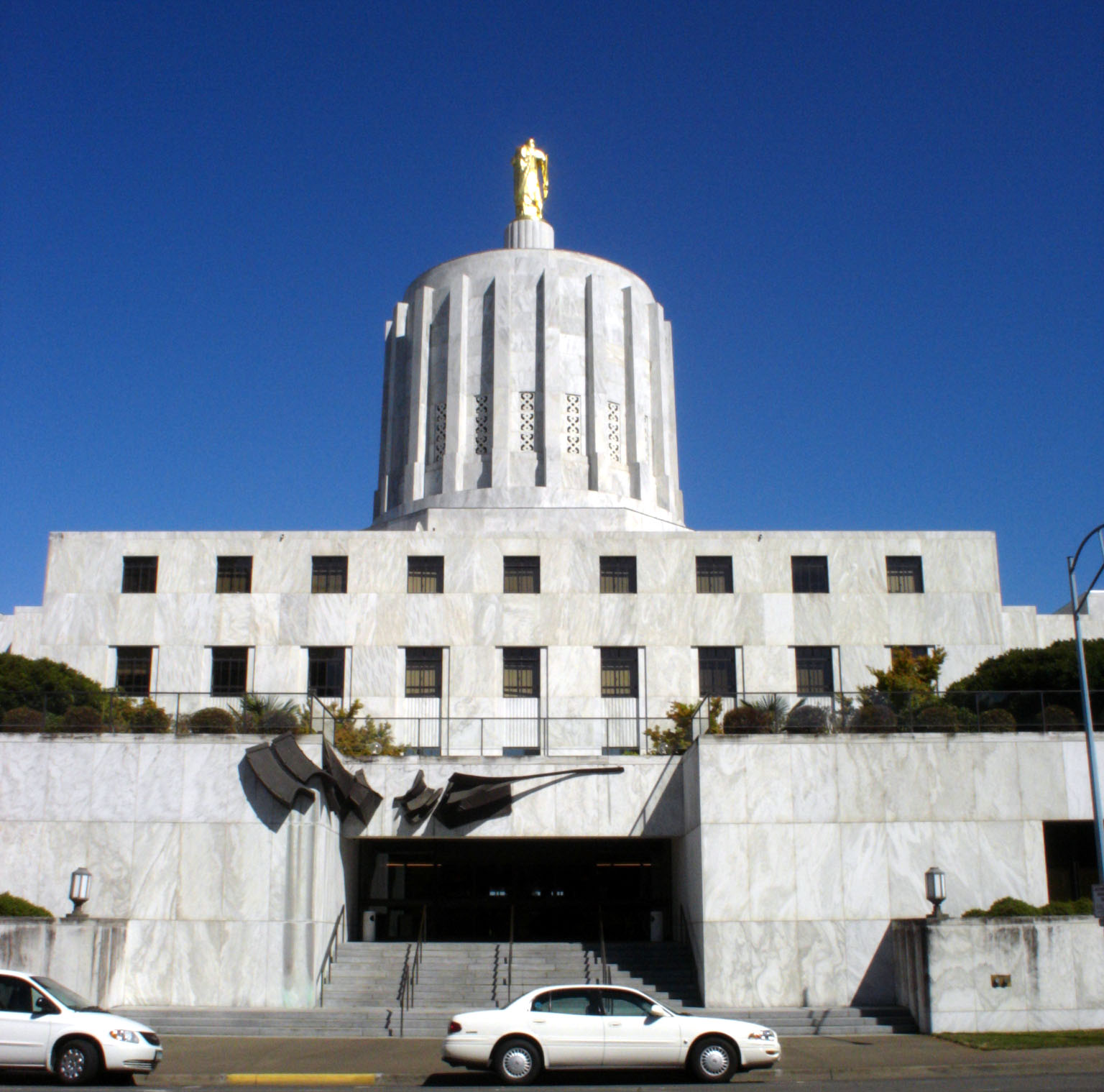 Oregon State Capitol, Salem, OR. Photo taken 7 September 2006.